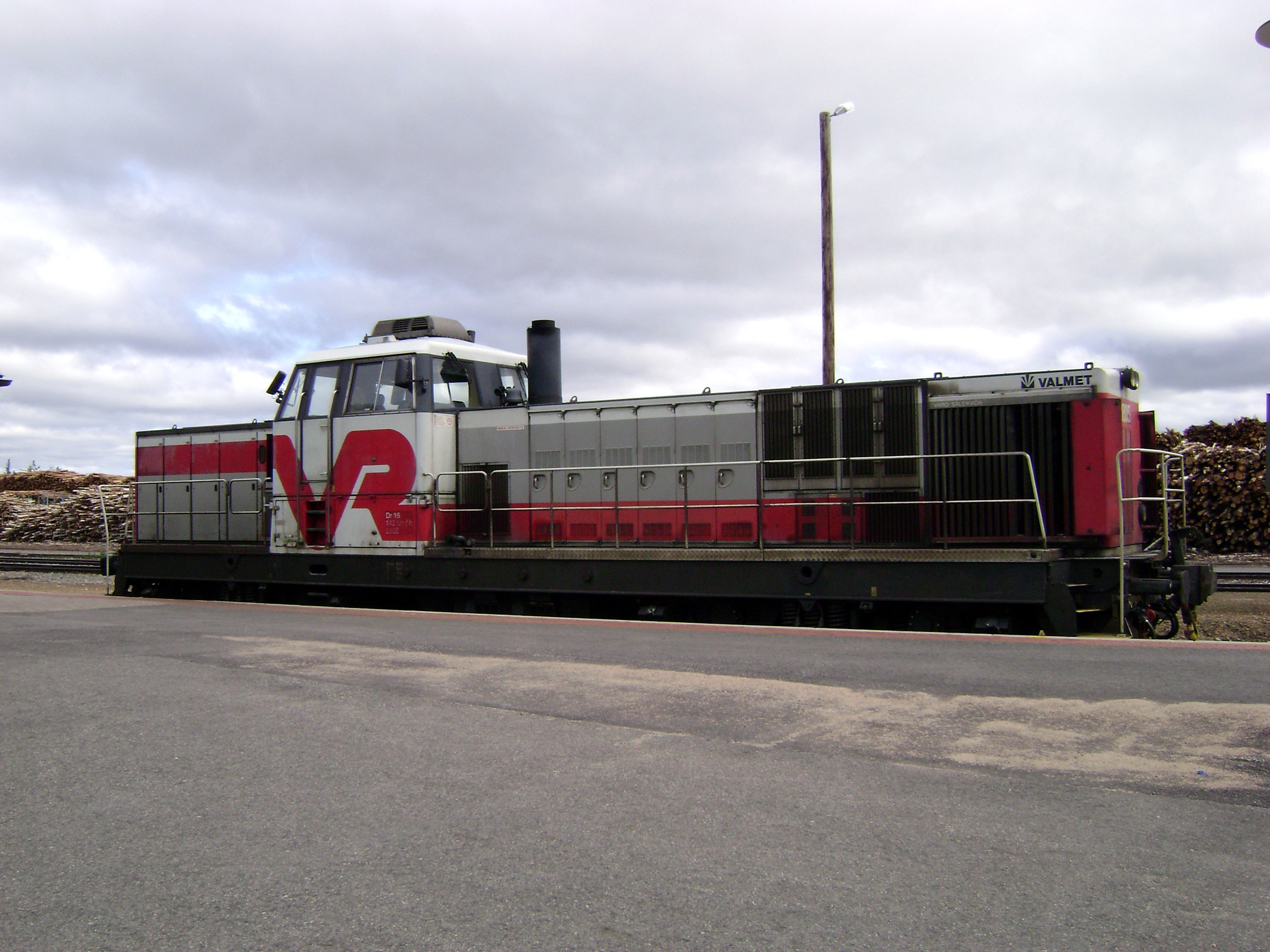 VR Class Dr16 diesel locomotive (no. 2805) at Kolari railway station in Kolari, Finland.